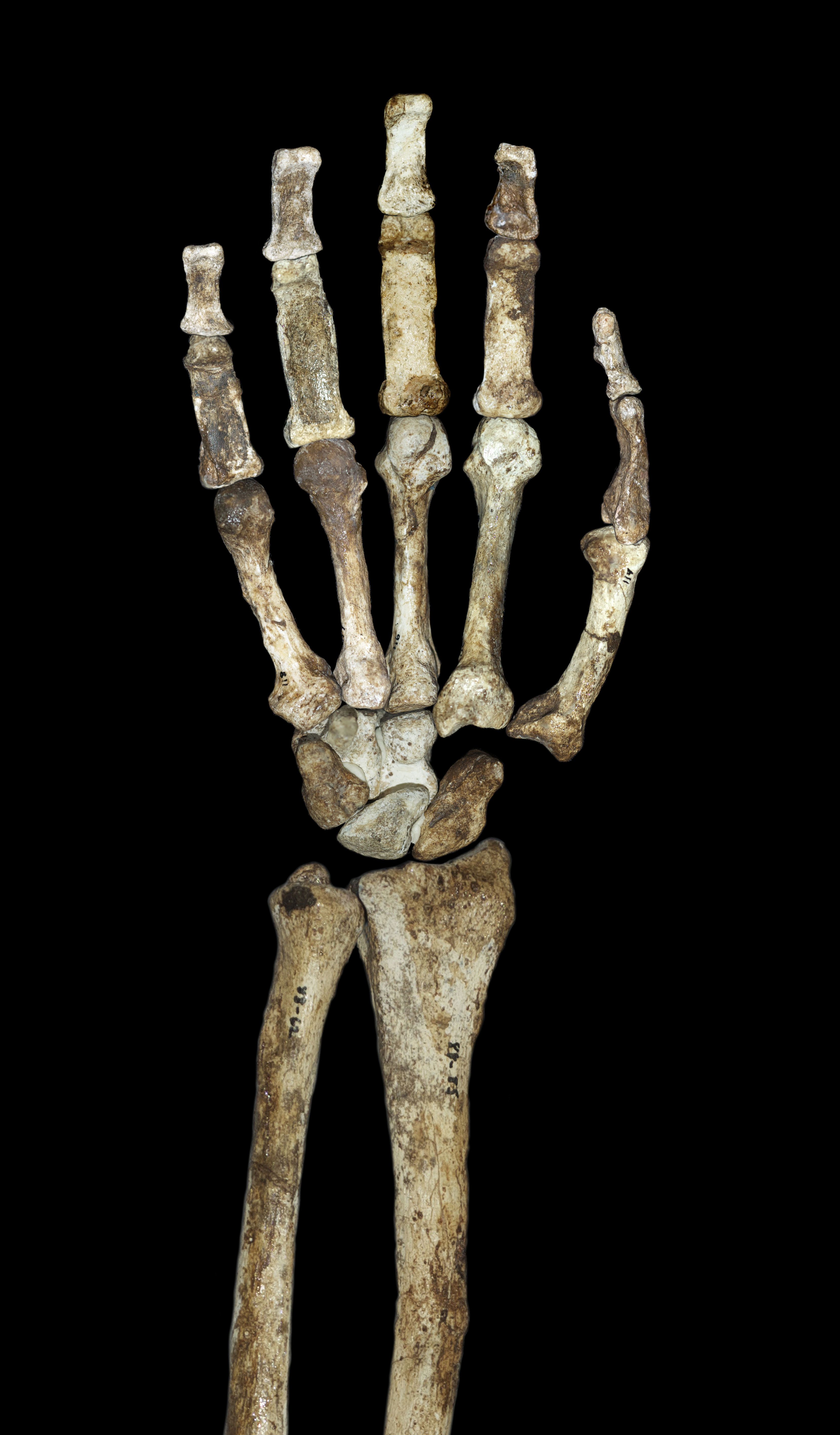 The hand and forearm of Australopithecus sediba (MH2). Image created by Peter Schmid, courtesy Lee R. Berger and the University of the Witwatersrand.